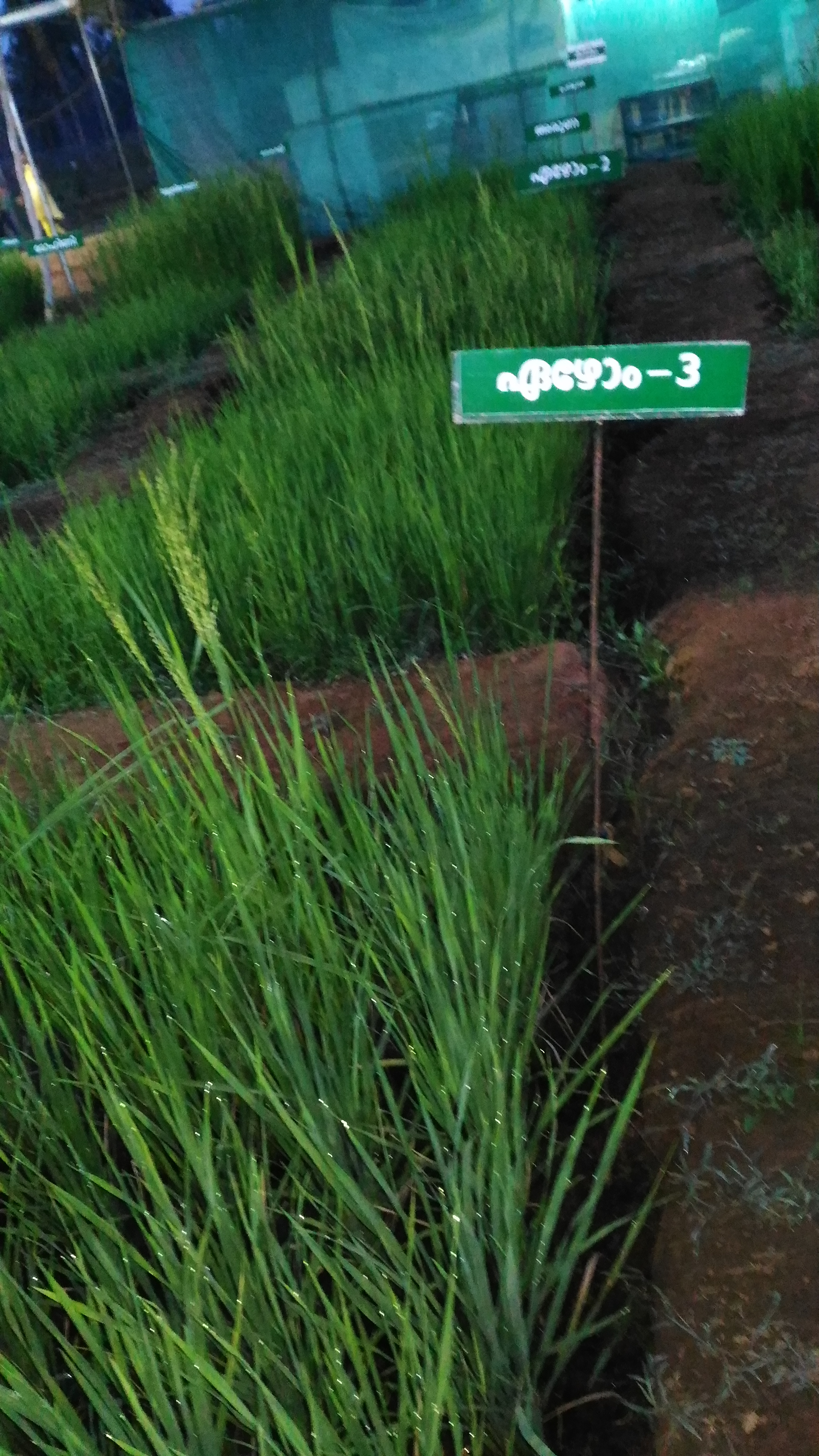 Ezhom paddy cultivation at the Regional Agricultural Institute at Pilicode, Kasaragod Dt